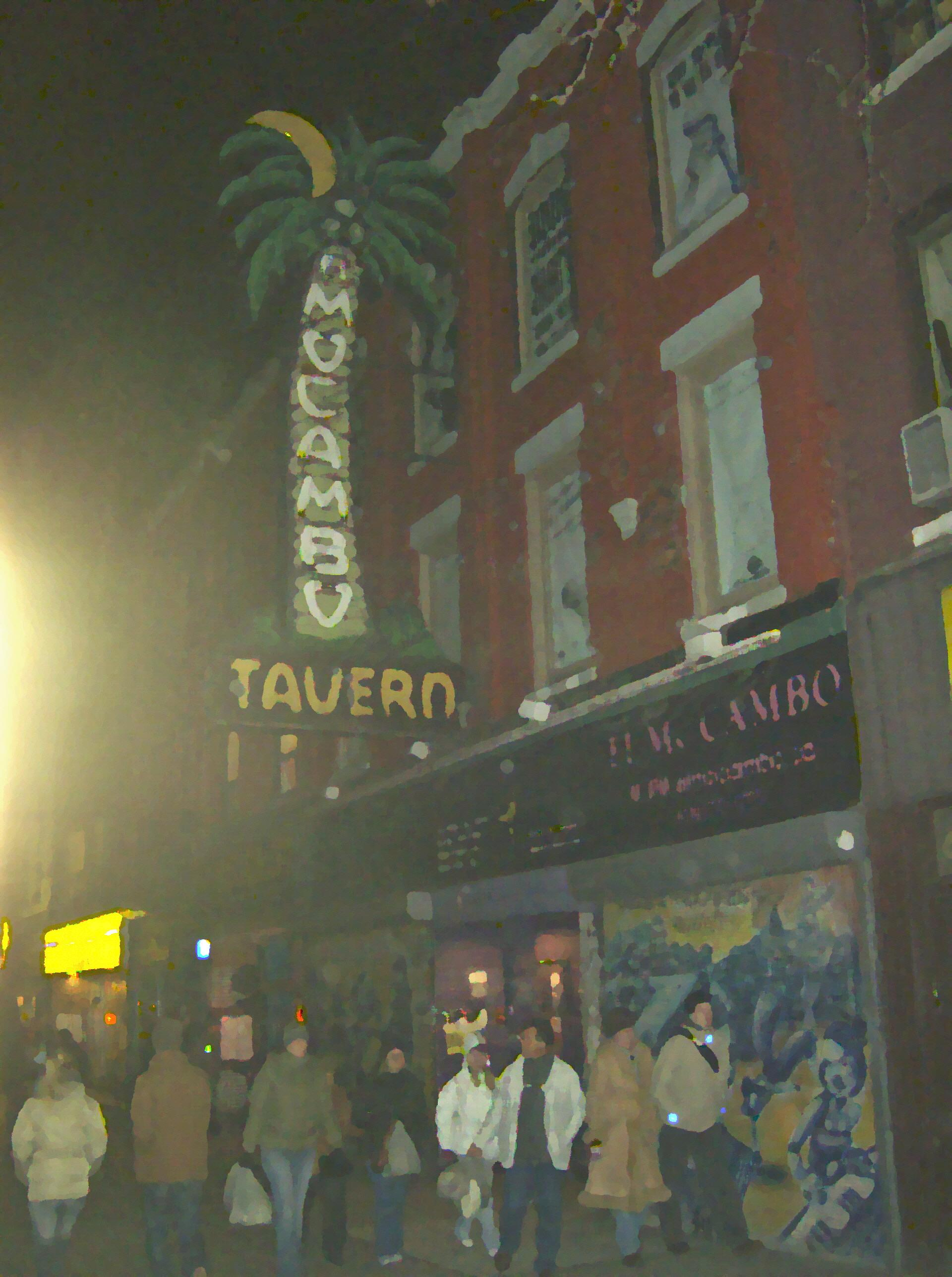 my photo